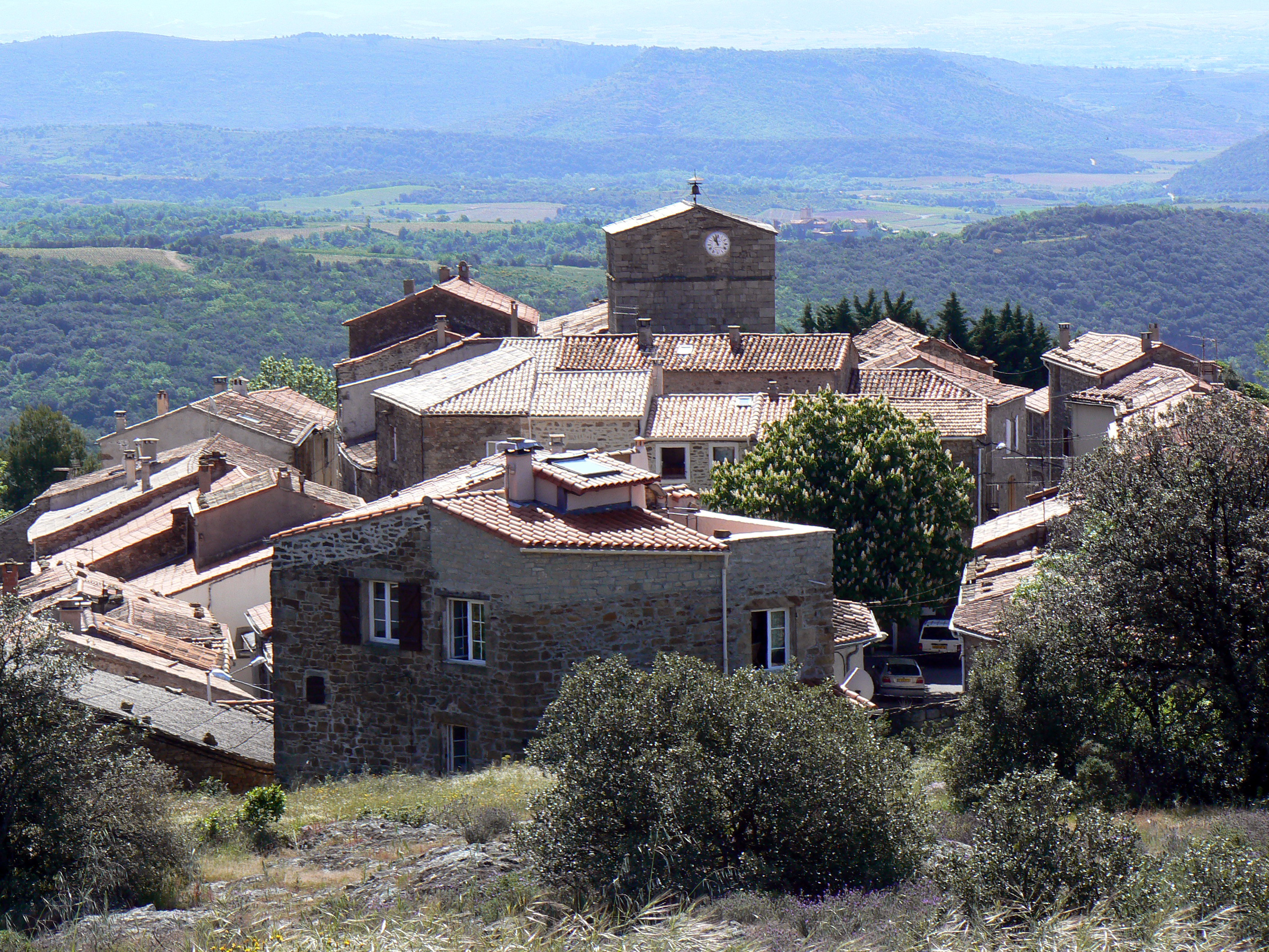 Panorama on Soumont, Causse de Larzac, France